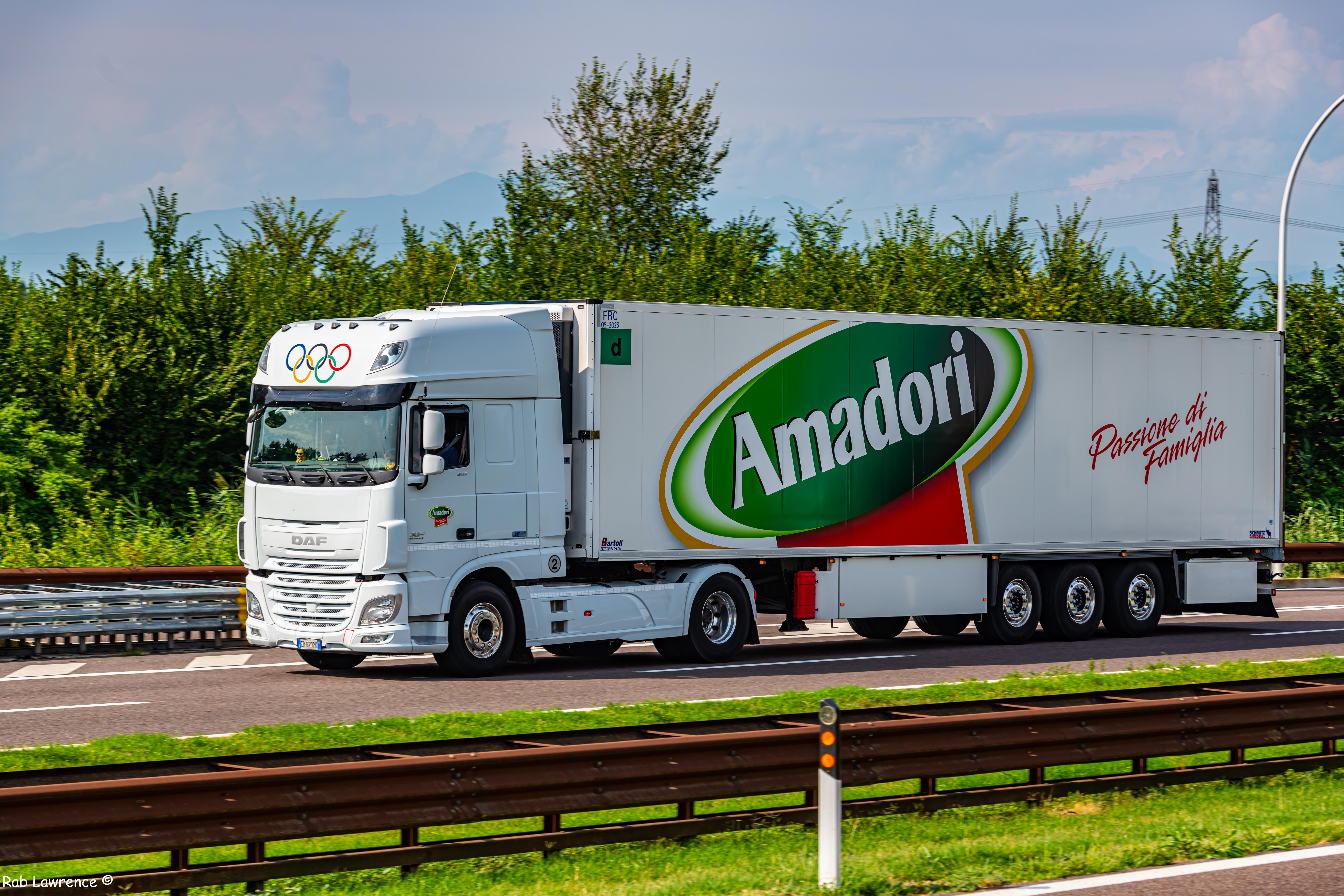 Truck Spotting in Italy Between Modena & Verona - Amadori